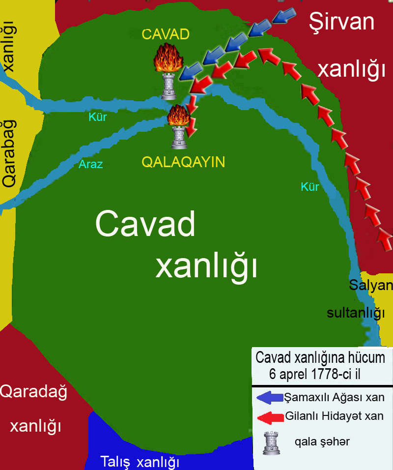 Hidayat Khan's attack on the Khanate of Javad. 6th April 1778